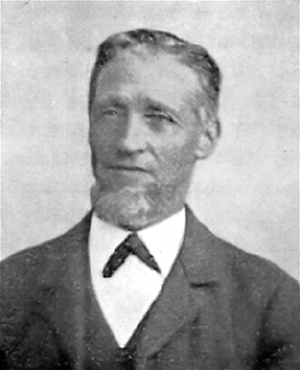 A photo of one of the fist Volapükists - and also Esperantists - in Norway, Haldor Midthus/